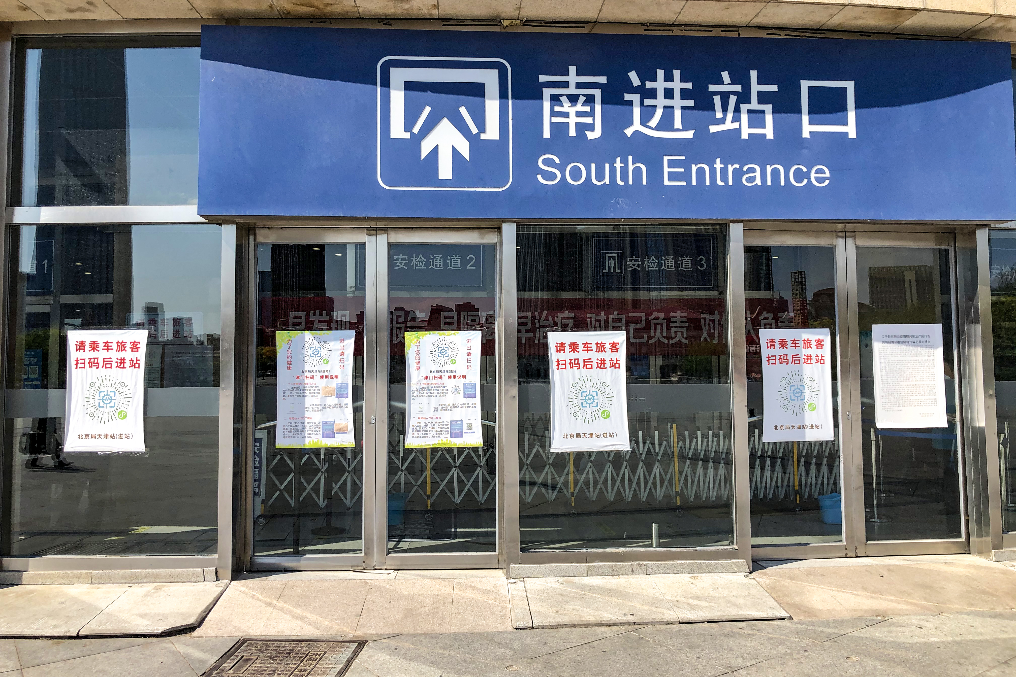 Jinmenzhanyi (津门战疫) is a tracking gadget for people entering public areas.